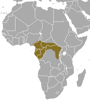 Black-footed Mongoose (Bdeogale nigripes) range